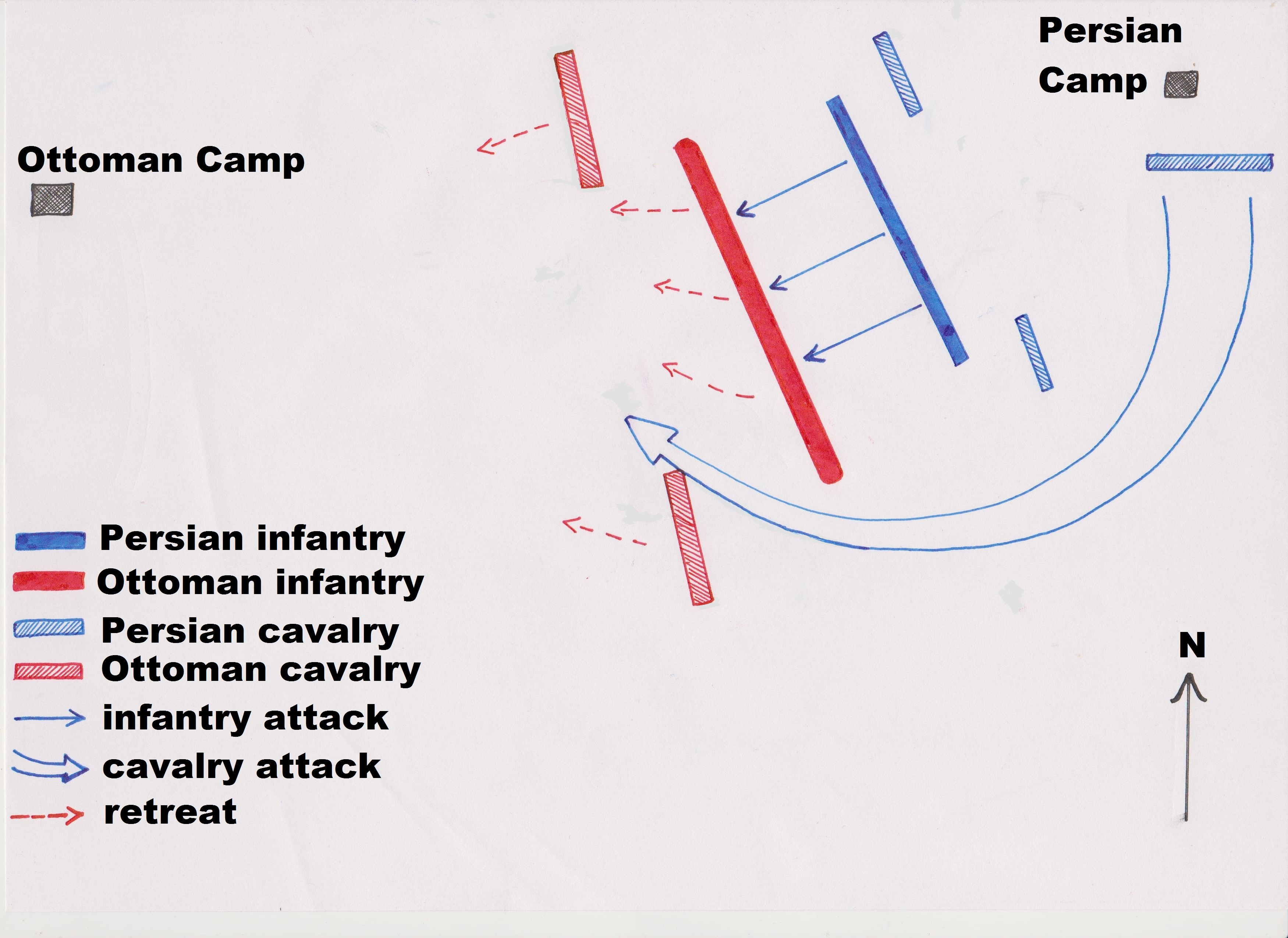 ssssssssssssw